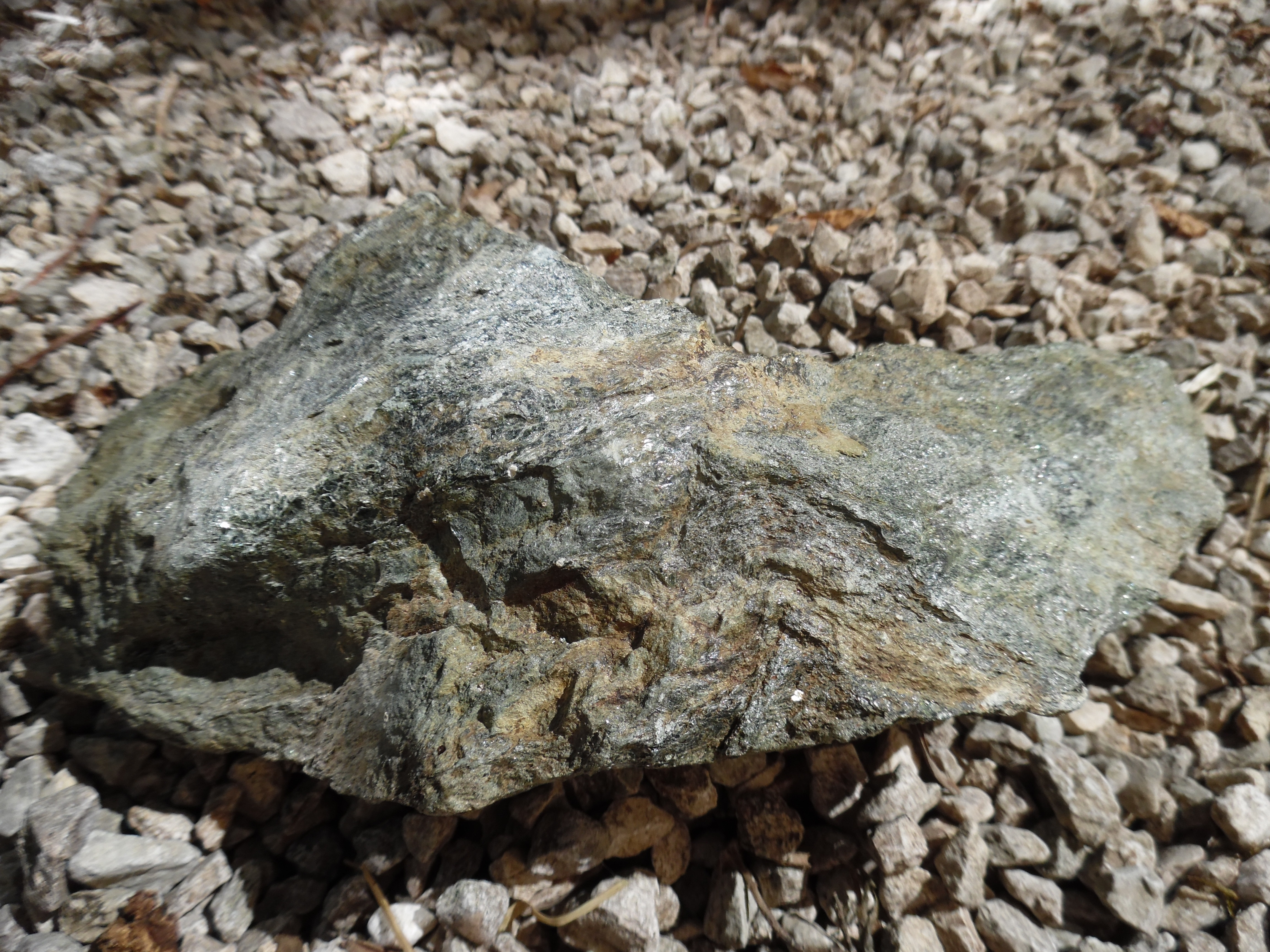 Heavily deformed micaschist from the Mazerolles Unit in the Haute-Charente, northwestern French Massif Central.